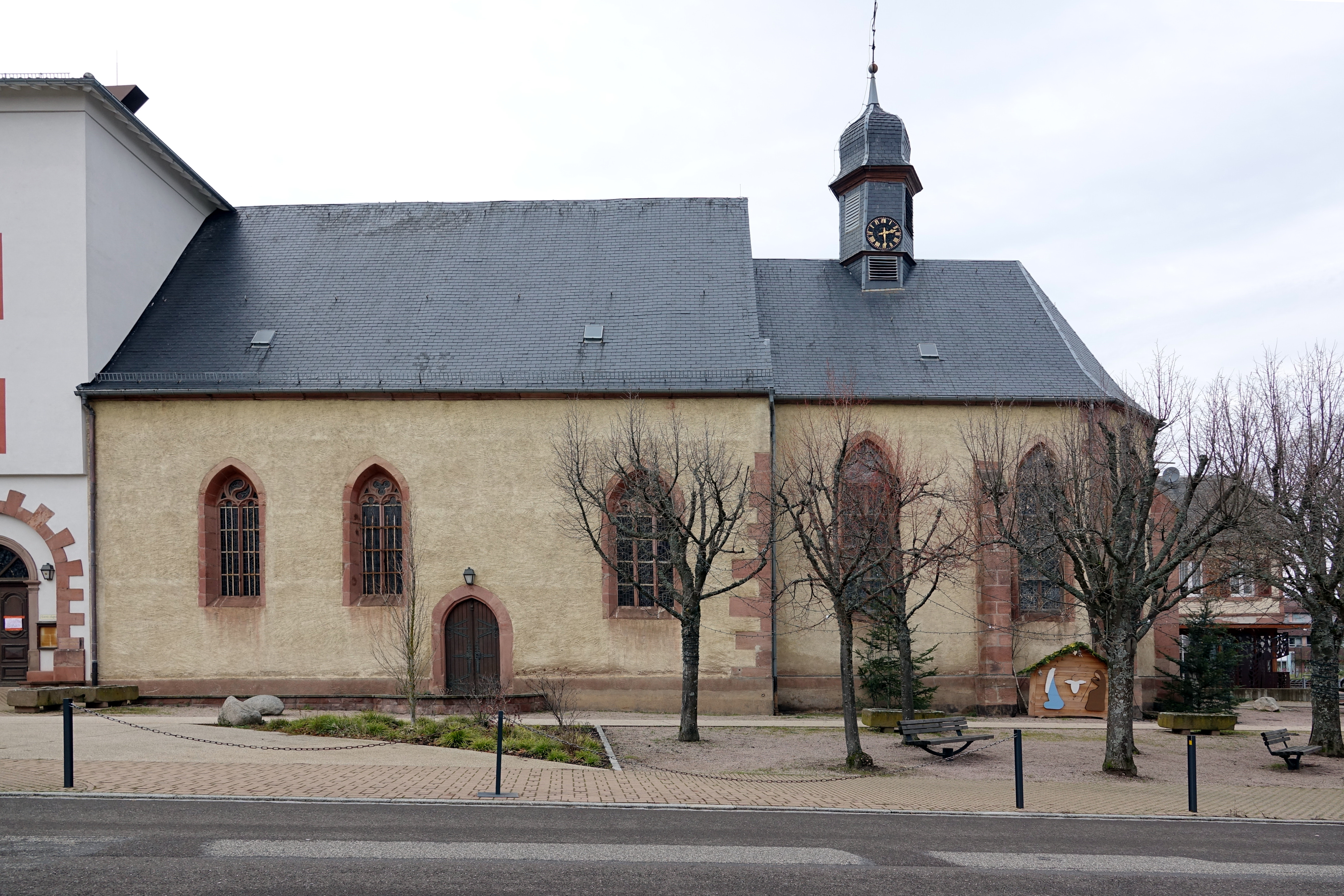 Chapel Notre-Dame-des-Trois-Épis (Trois-Épis, Haut-Rhin, France).